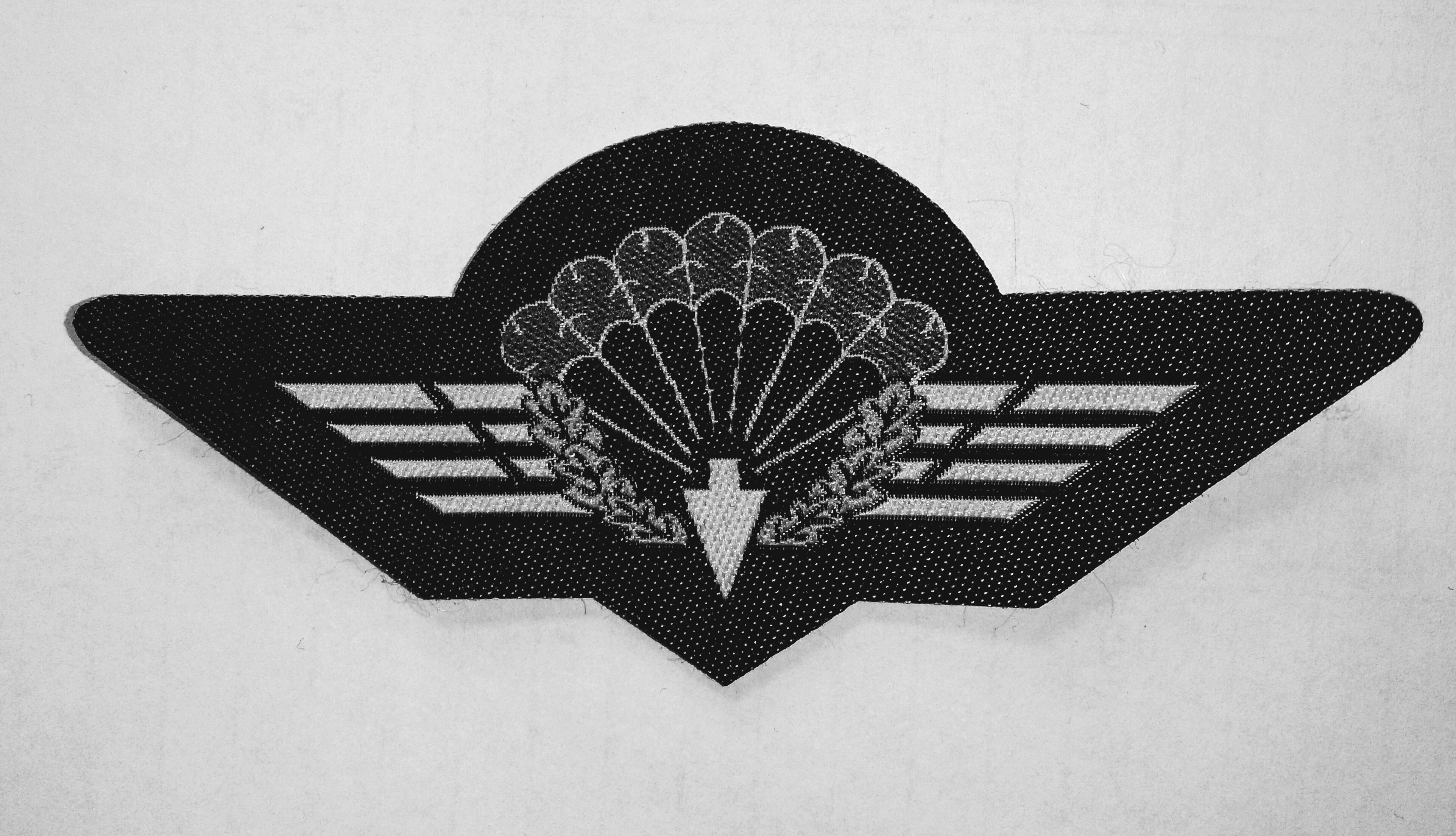 Badge awarded for GSG9 members who are speciall qualified as parachutists.